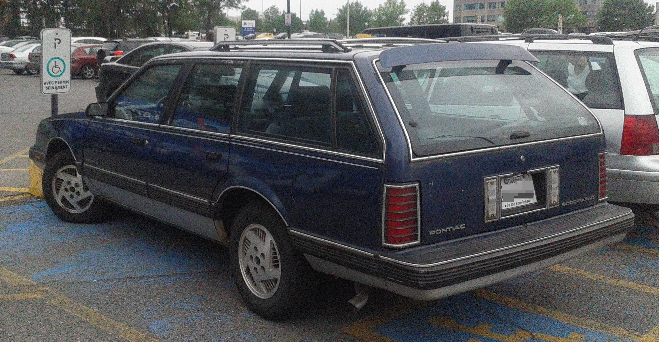 1989-1991 Pontiac 6000 Safari photographed in Pointe-Claire, Québec, Canada.